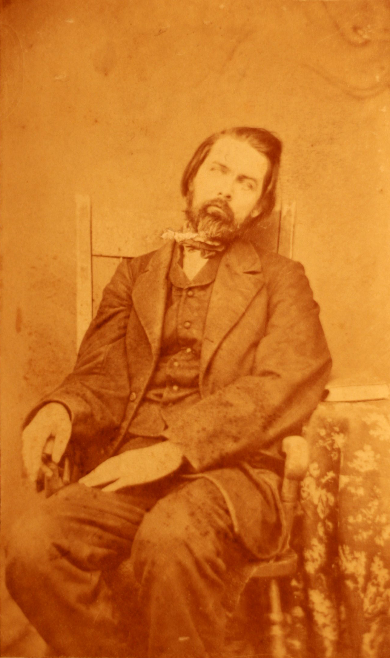 Post-mortem photograph of a deceased man in a chair with table and book. The body is arranged so as to appear lifelike.